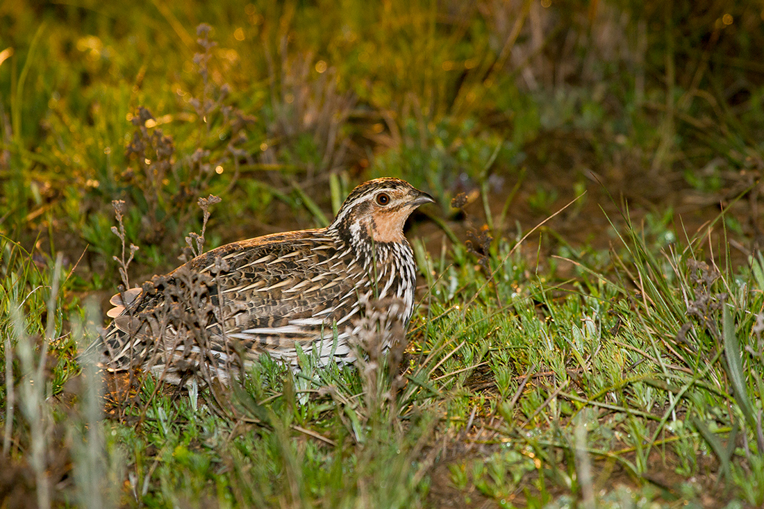 North of Deniliquin NSW